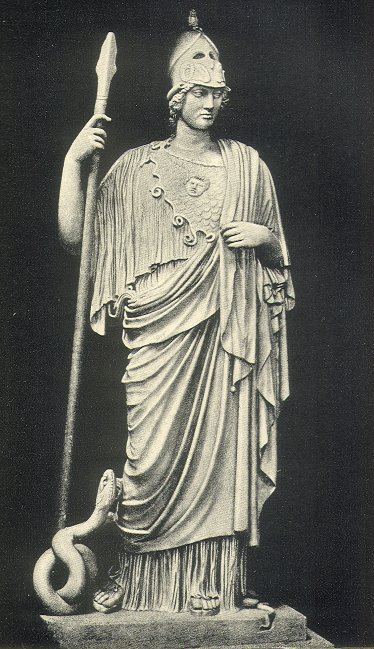 Statue of Athena (or Minerva). Photo-engraving from the original marble statue in the Vatican at Rome. This statue is known as Atena (or Minerva) Giustiniani. It was found in the temple of Minerva Medica on the Esquiline Hill, and is supposed to be a copy of a statue by Pheidias. It is admirably preserved, and is sculpted in the finest Parian marble. Vatican, Museums.